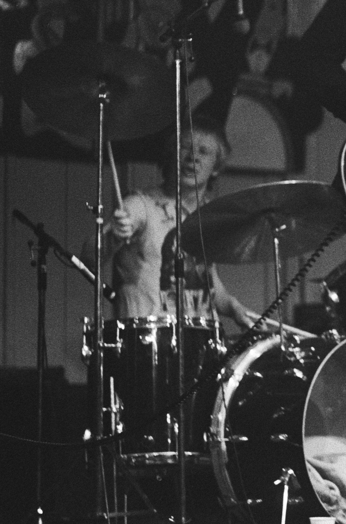 Paul Cook of the Sex Pistols in the Netherlands.